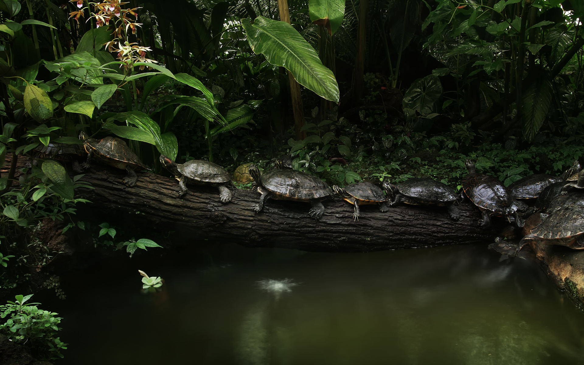 Turtles, Tortoises, and Terrapins are reptiles of the Order Testudines (all living turtles belong to the crown group Chelonia), most of whose body is shielded by a special bony or cartilagenous shell developed from their ribs.